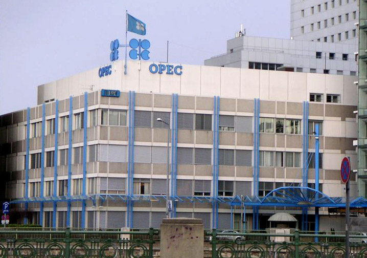 OPEC headquarters in Vienna